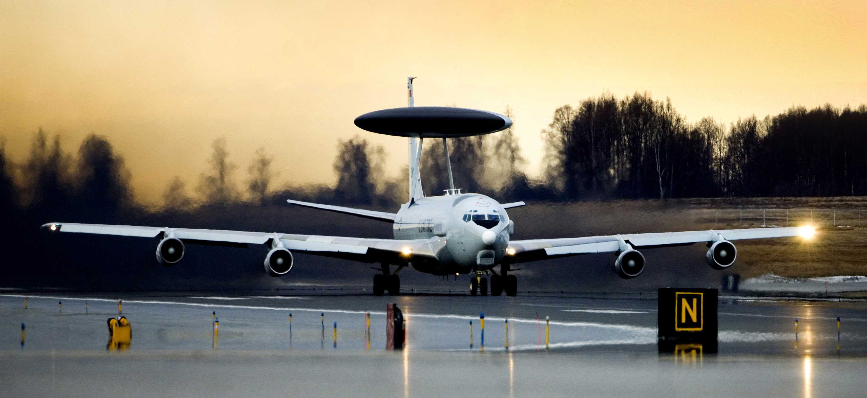 An E-3 Sentry Airborne Warning and Control System aircraft prepares to take off at Elmendorf Air Force Base, Alaska. The first E-3 rolled out of the Boeing factory on Feb. 1, 1972, and AWACS aircraft have been providing continuous air surveillance and command and control ever since.